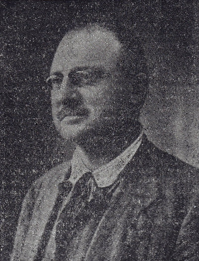 A photograph of Ivo Ćipiko (1869-1923), Serb-Catholic writer from Dalmatia. Taken from the Srpska čitanka za četvrti razred srednjih škola (1919). Srpski (latinica): Fotografije Ive Ćipika (1869-1923), srpskog pisca iz Dalmacije. Preuzeto iz Srpske čitanke za četvrti razred srednjih škola (1919).